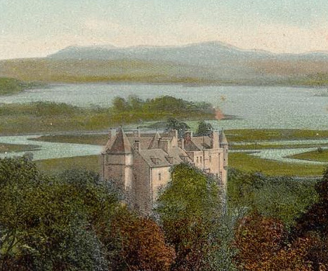 Kenmure Castle and Loch Ken